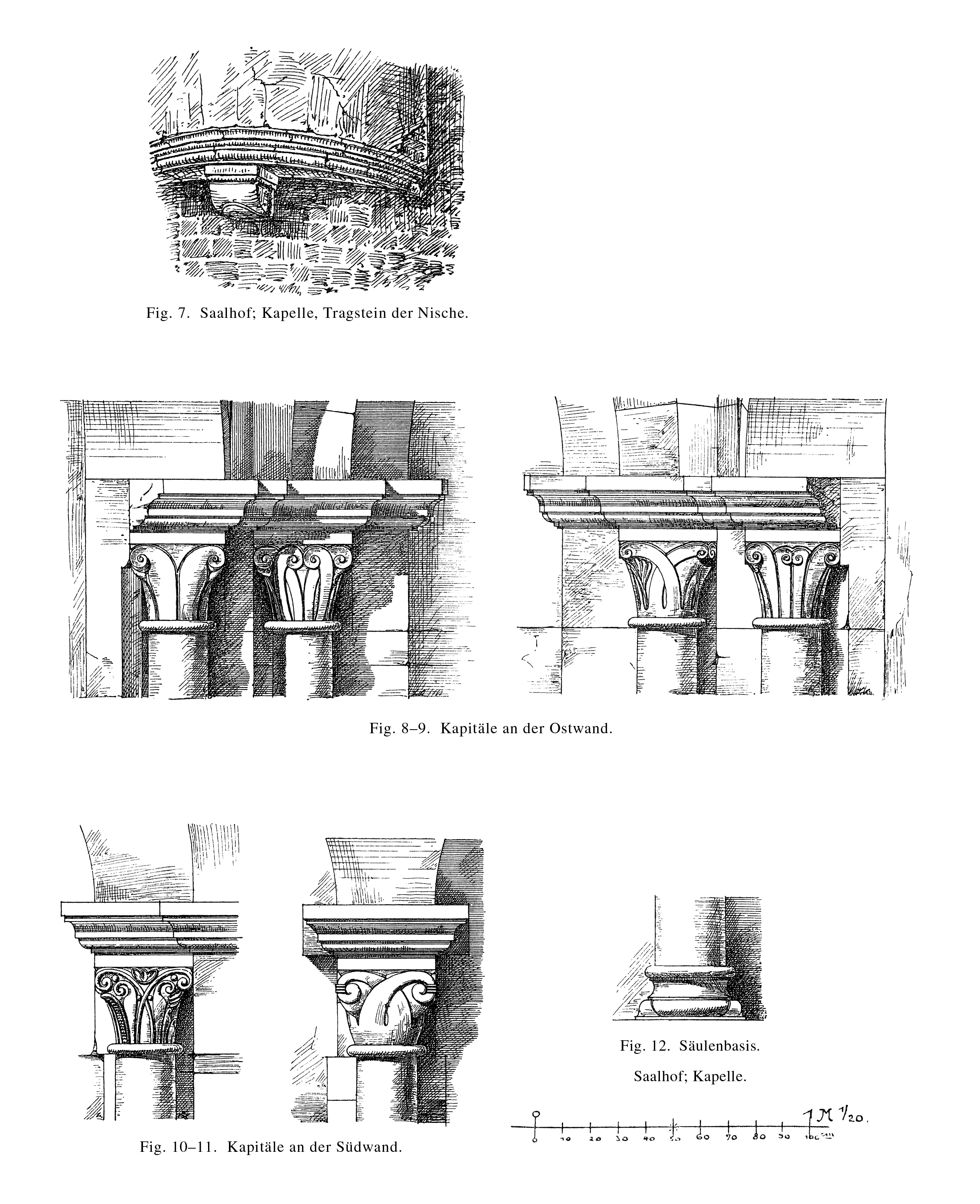 Frankfurt on the Main: Saalhof, perch, capitals and plinth at and inside of the chapel